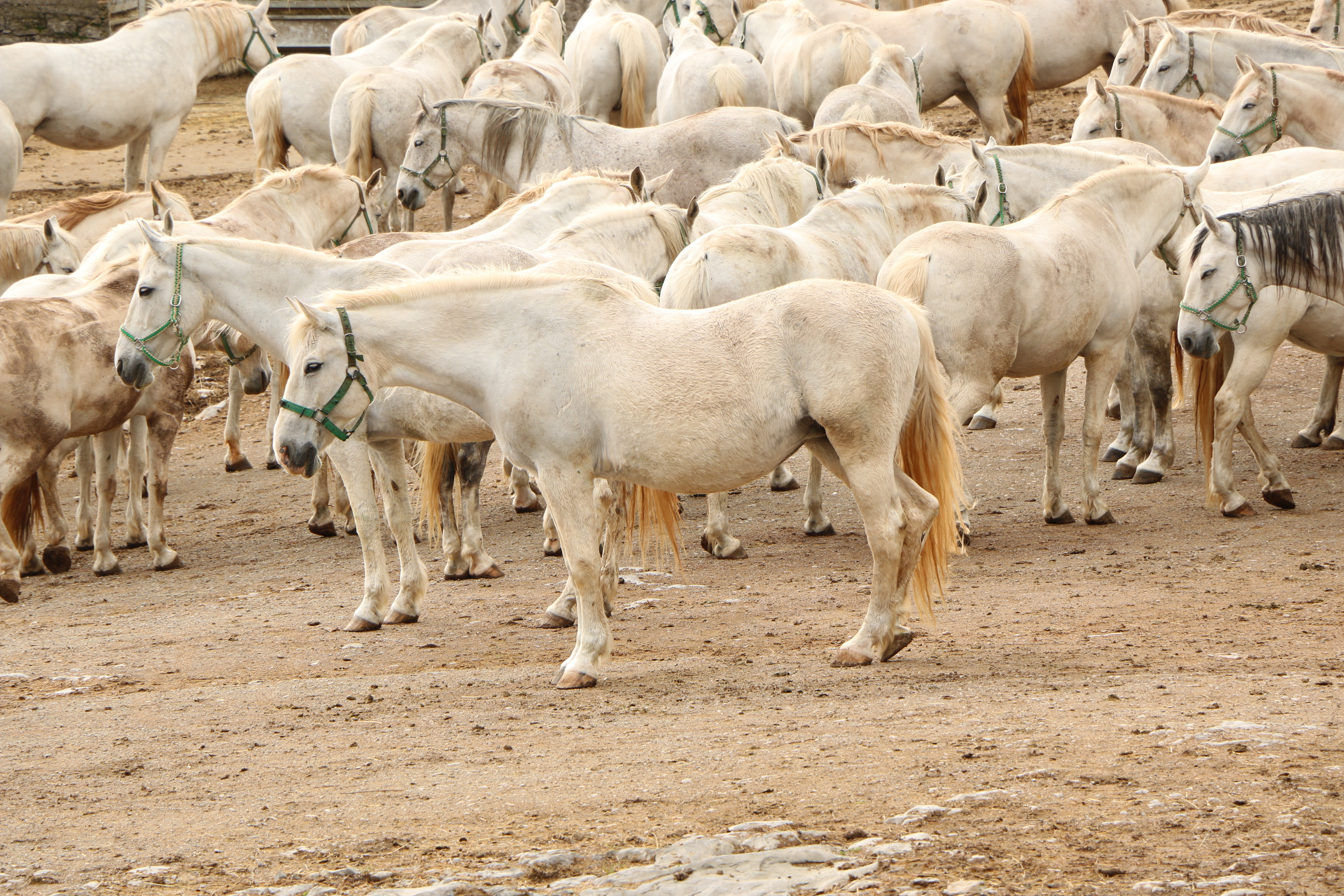 Horses in Lipica.